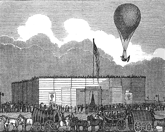 Flight of balloonist Charles F. Durant in Boston, 1834. Illustration from: American Magazine of Useful and Entertaining Knowledge. vol.1, 1835.